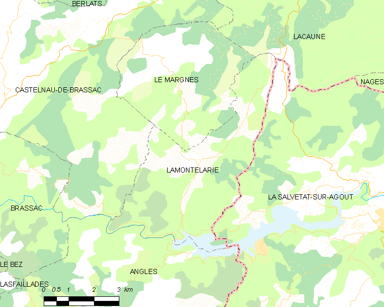 Map commune FR insee code 81134.png - Lamontélarié